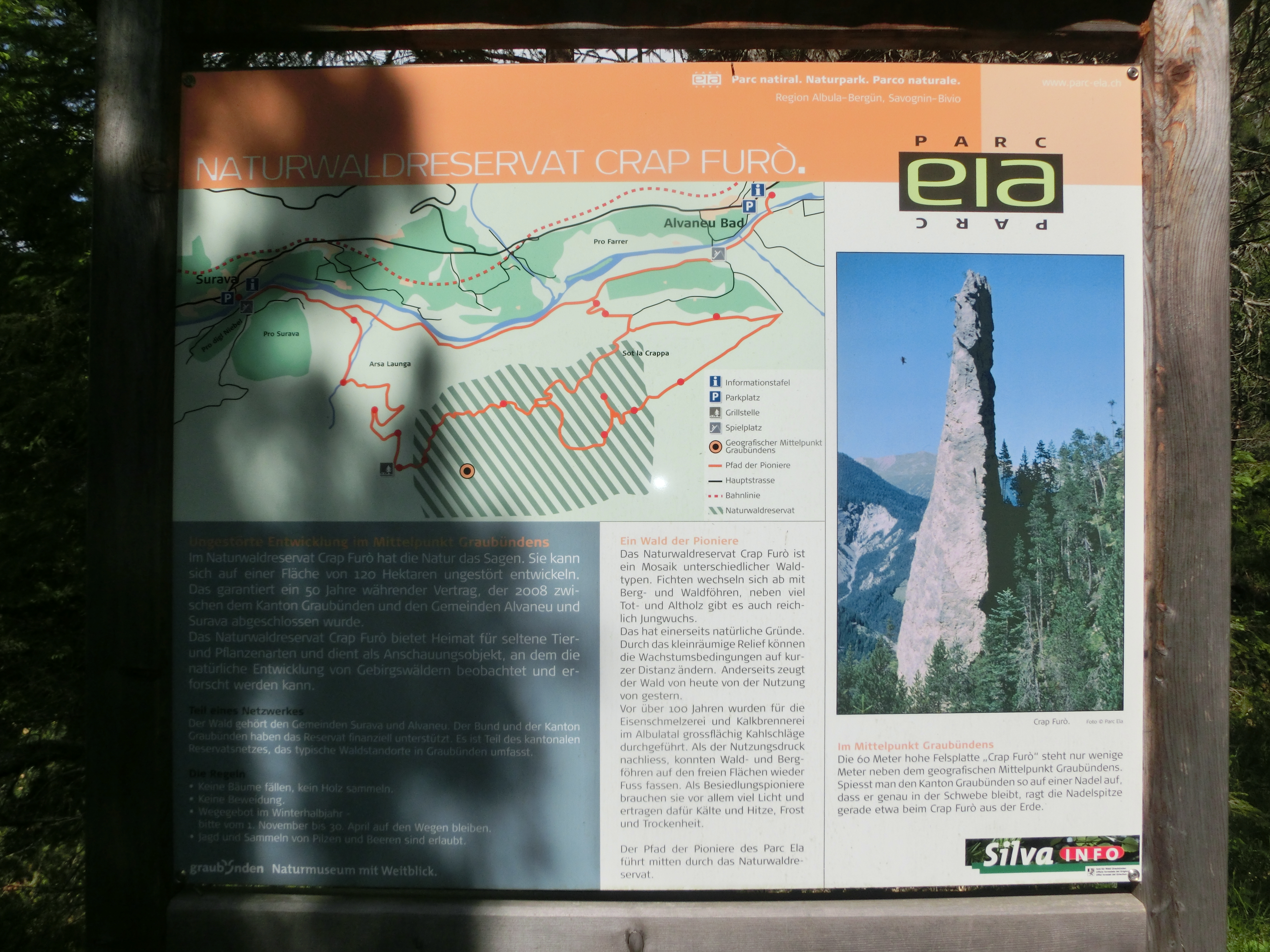 Information board along the "Pfad der Pioniere" (Surava, Grison, Switzerland)